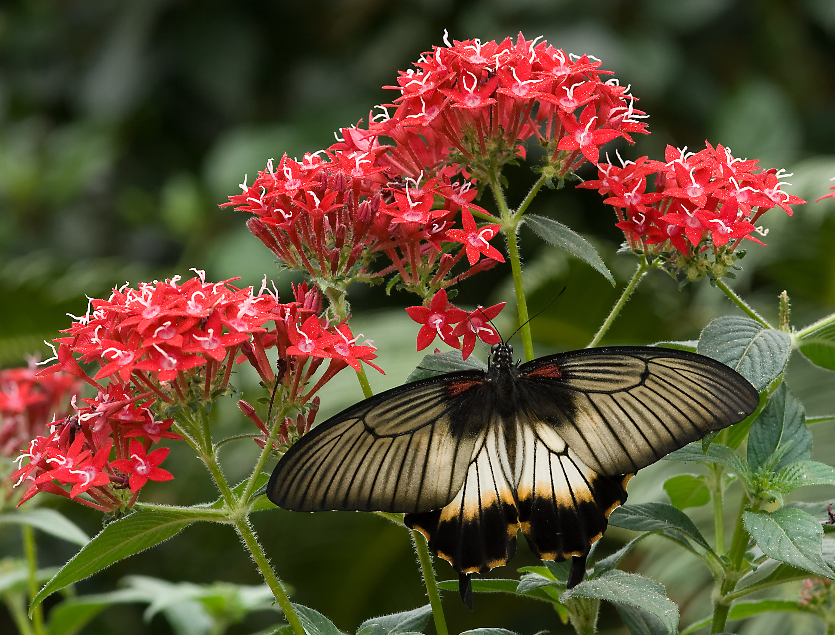 Great Mormon, female (Wilhelma Zoo, Stuttgart, Germany)